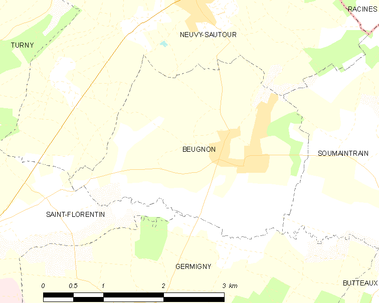 Map of French municipality Beugnon